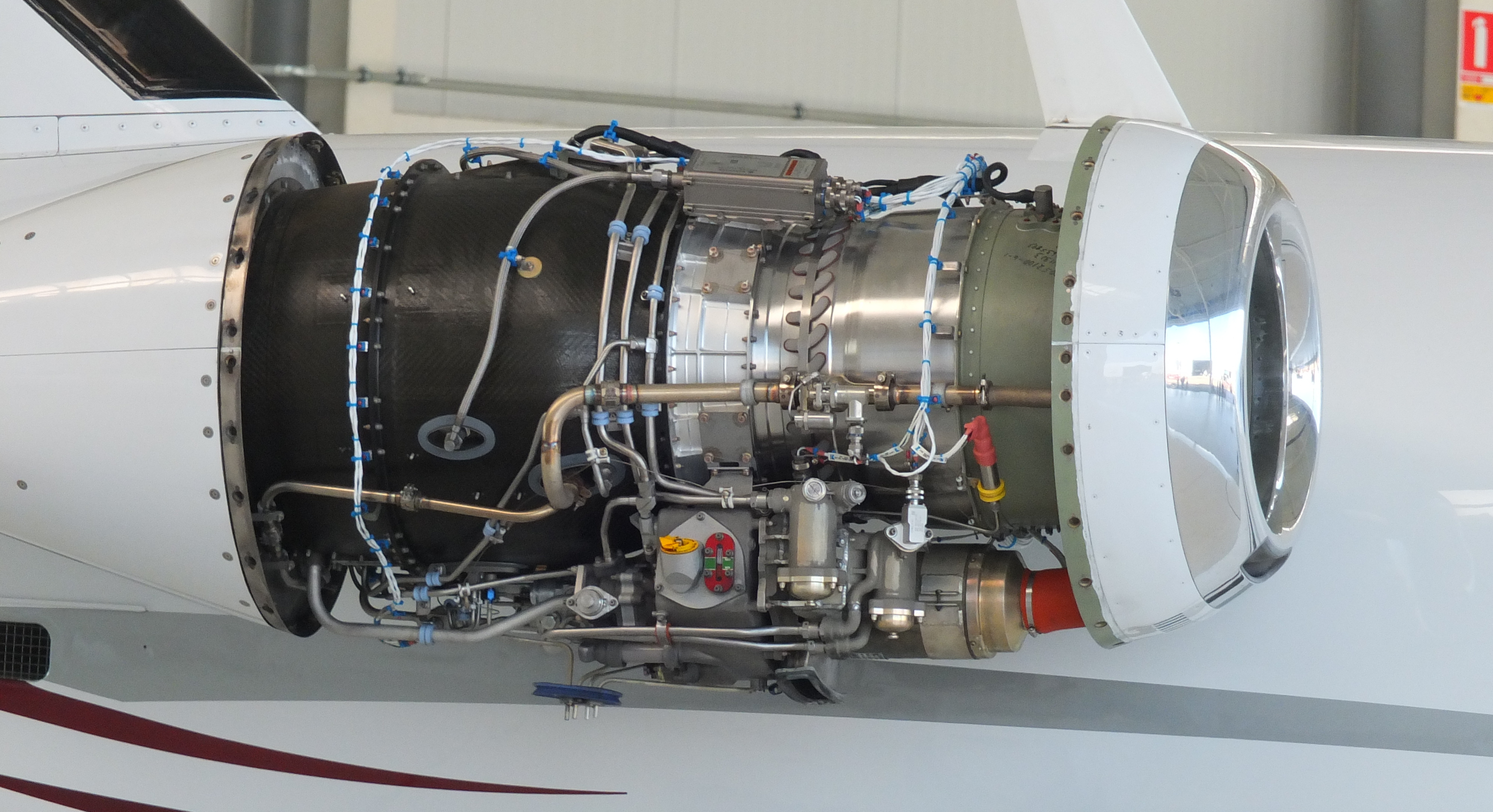 Cessna 510 Citation Mustang LX-FGC (CN: 510-192) at Antwerp International Airport.